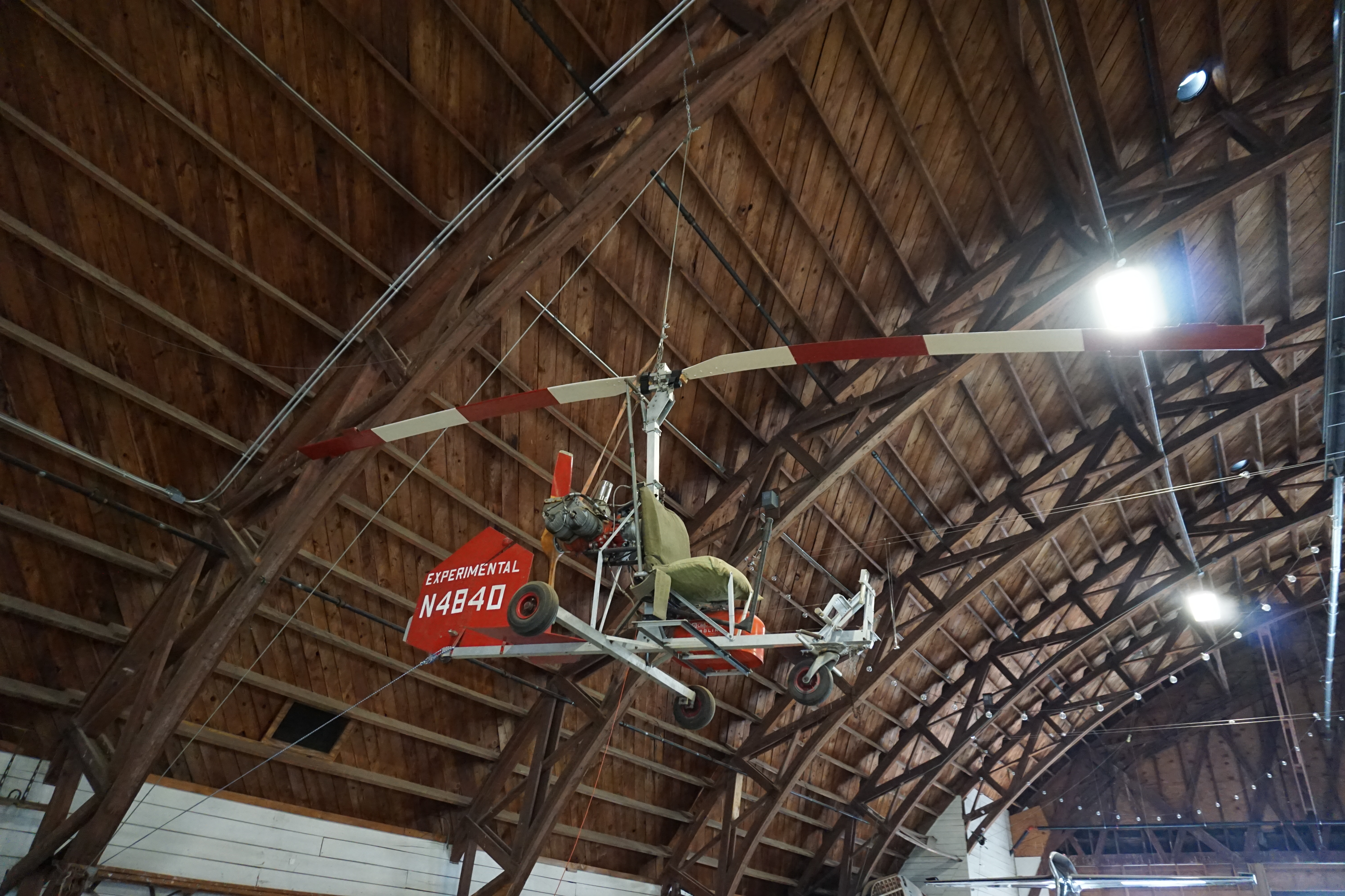 A Bensen B-8M Gyrocopter at the Arkansas Air & Military Museum in Fayetteville, Arkansas (United States).